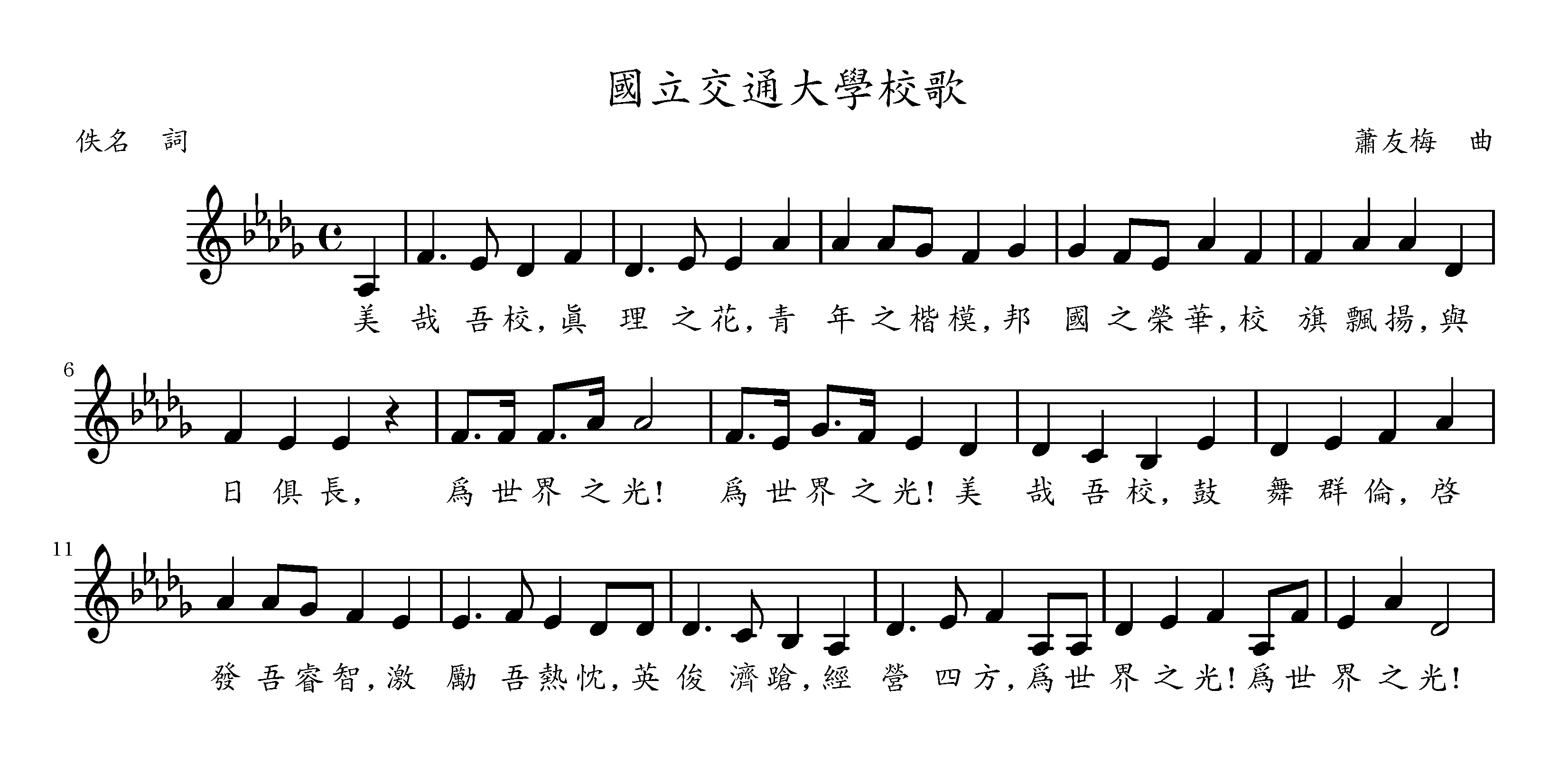 Sheet music of the present school song of National Chiao Tung University. The composer passed away in 1940, and the author of the lyrics is unknown. According to the copyright law in Taiwan (R.O.C.), the song is in public domain (see: List_of_Copyright_Durations). Created with Lilypond.